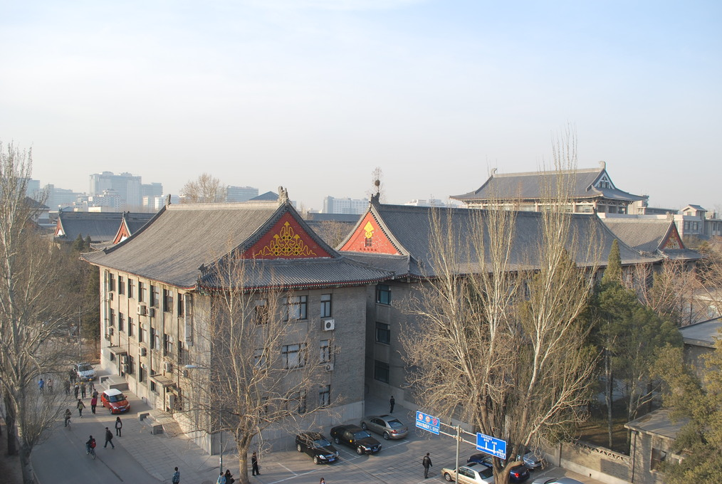 The Peking University campus in Beijing, China.